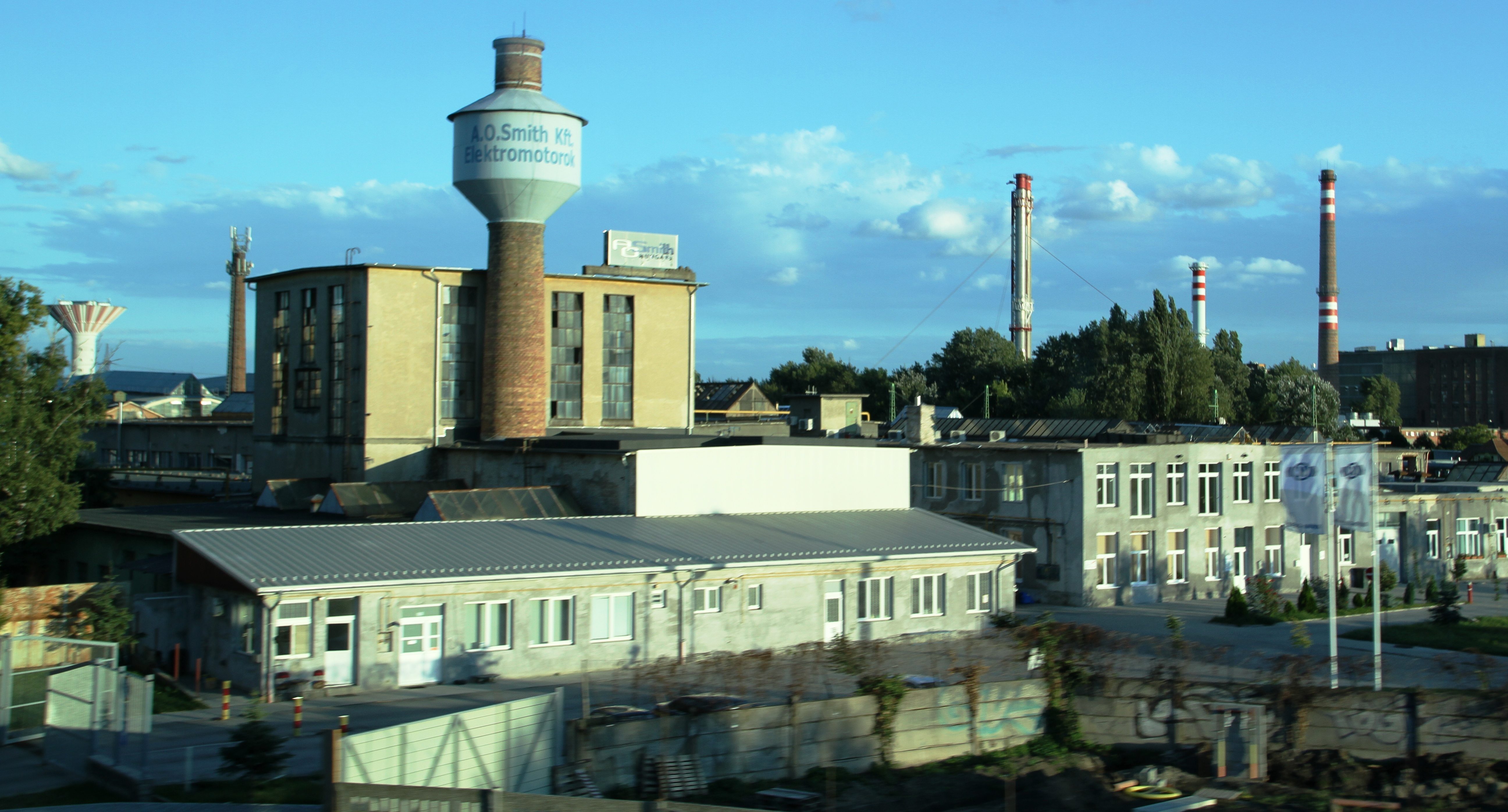 The Evig Invest Industrial Park with an A.O. Smith Hungary Kft. advertisement (former United Electrical Machinery Factory - Egyesült Villamos Gépgyár (EVIG) - area) in Gyömrői road 150, in the District X, Budapest (Pest). In the background, the tall chimneys belong to the Kispest Power Station, producing 113+337 MW energy.